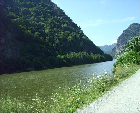 The Olt River at Turnu Roşu The picture has been released to public use (GNU licence) in Ro:Wiki file OltulLaTurnuRosu.JPG